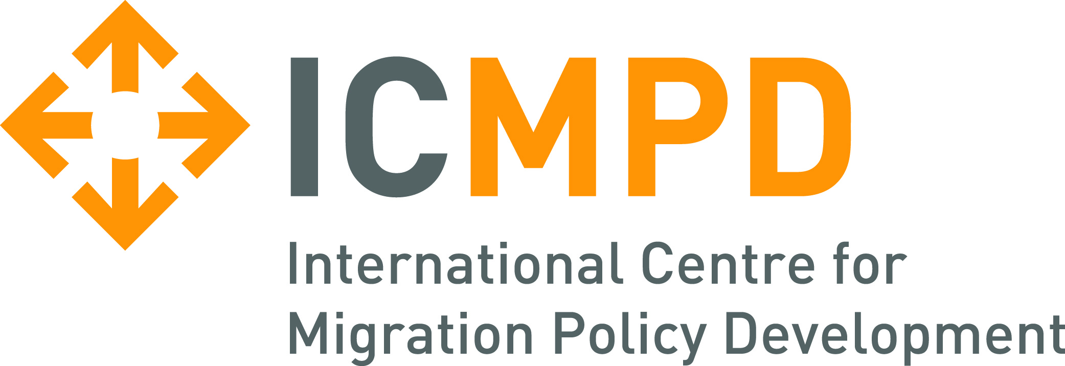 ICMPD logo